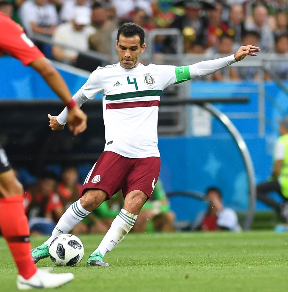 Rafael Márquez